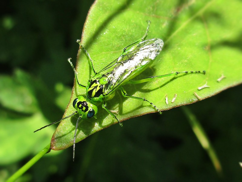 Rhogogaster chlorosoma (Tenthredinidae sp.), Giethoorn, the Netherlands